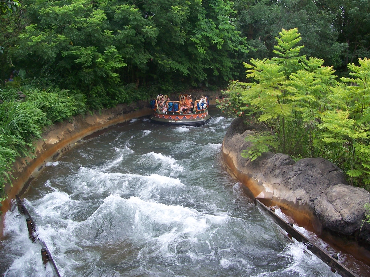 Kali River Rapids water ride with operating twelve-person raft.